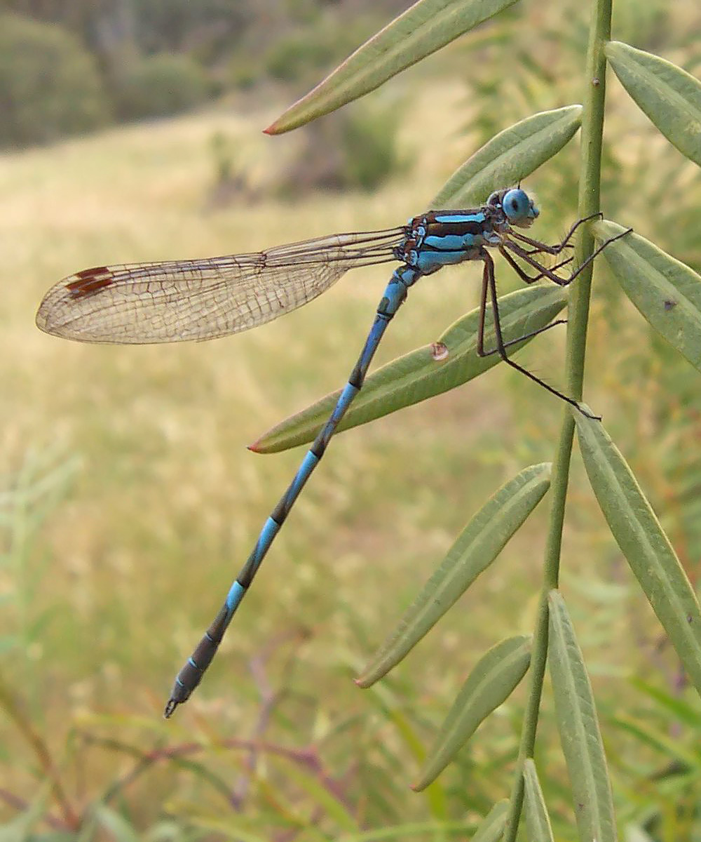 Male of Austrolestes annulosus (Selys) in the family Lestidae (commonly known as a Blue Ringtail). It inhabits riverine pools, lakes and ponds, including tempoary pools, and is widely distributed over the Australian continent except the northern and north eastern parts.